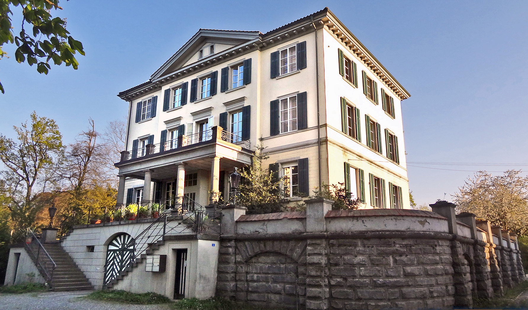 Landhaus Moosburg in Güttingen, Switzerland